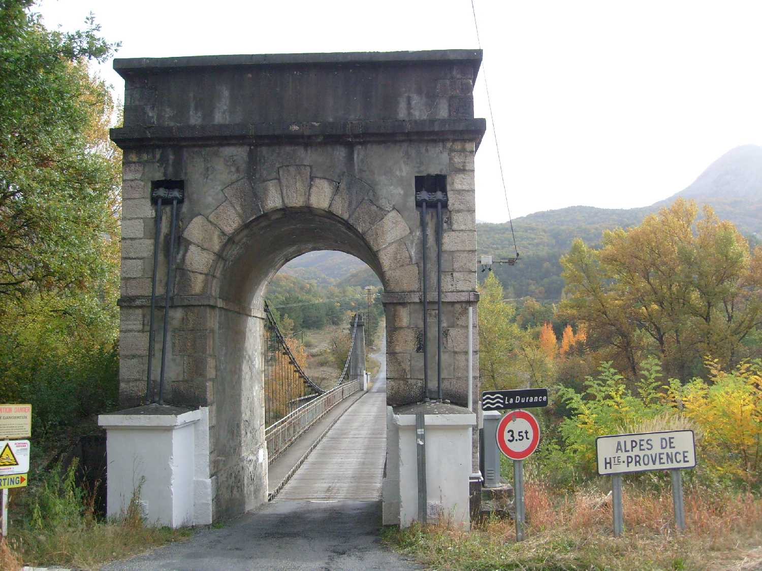 Archidiacre bridge across Durance river